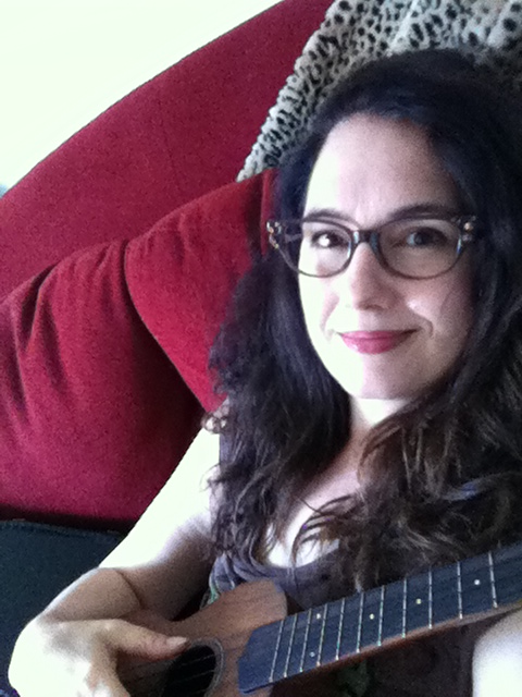 Julianne Buescher performance